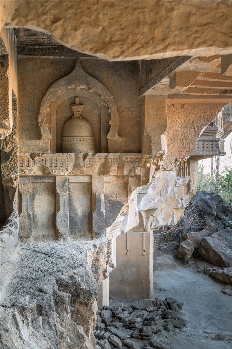 Kondana caves vihara veranda